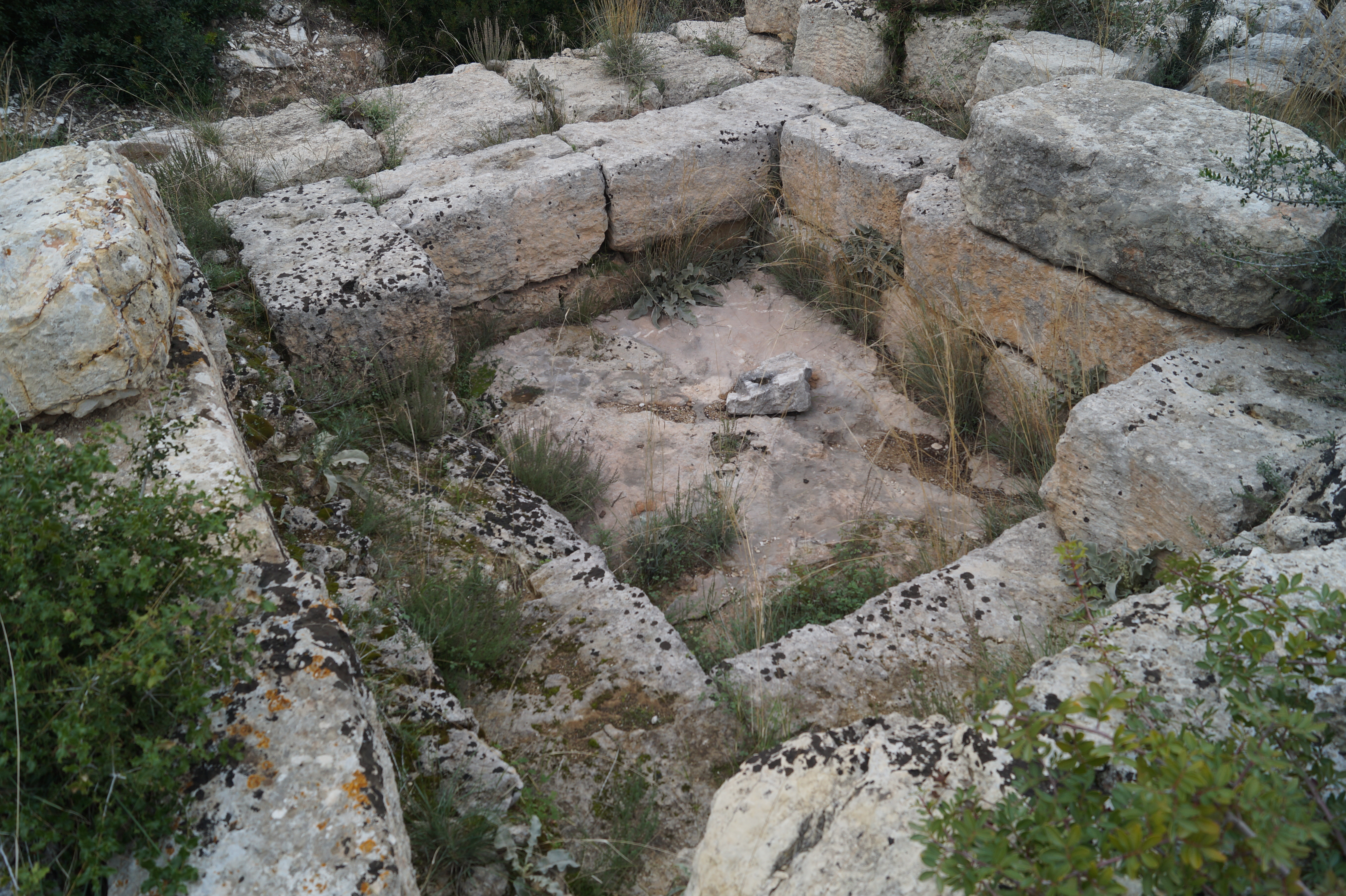 Kechries, Corinthia, Greece: View from north on the chamber of the monumental roman tomb at Kenchreai.